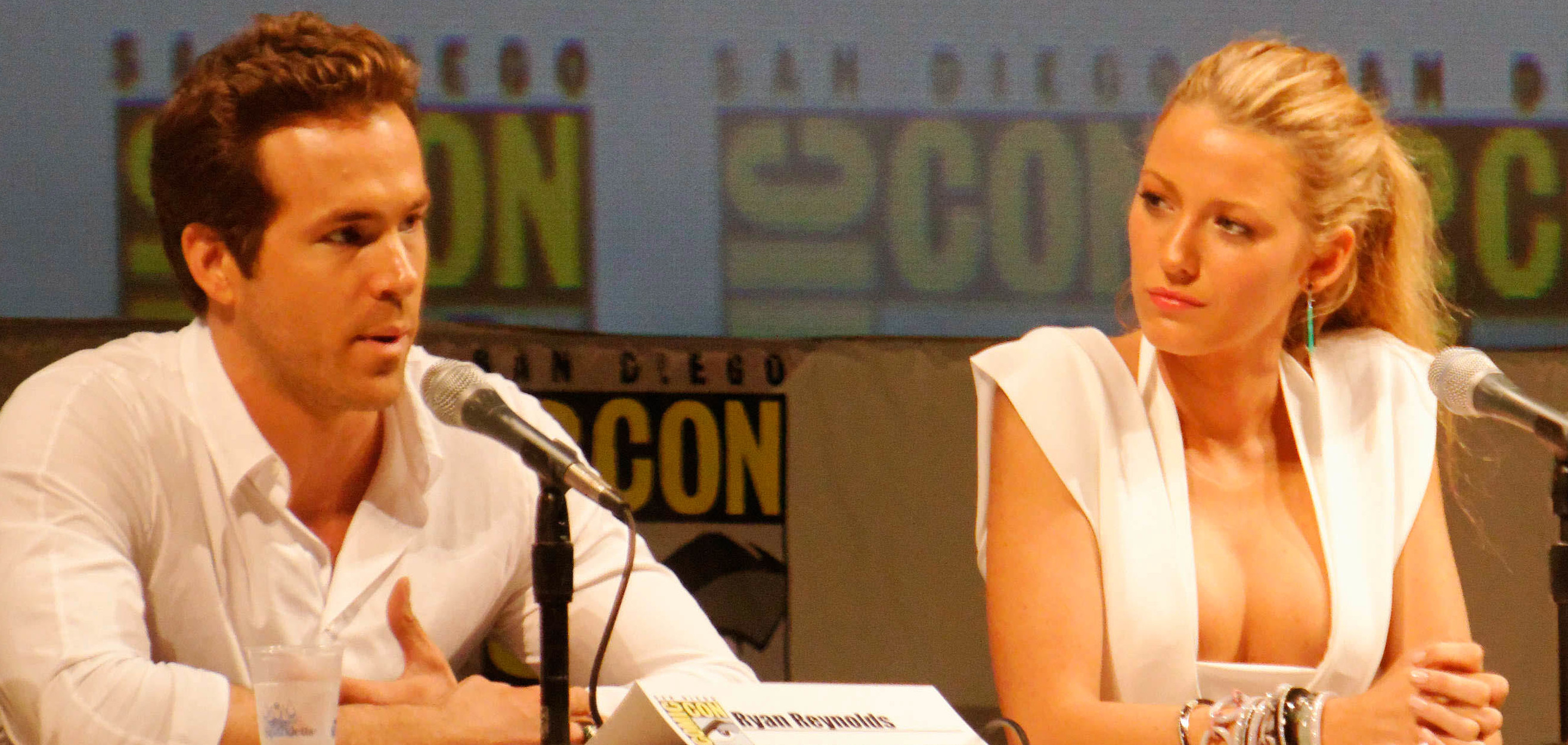 Green Lantern panel at the 2010 San Diego Comic-Con International with Ryan Reynolds, Blake Lively, Peter Sarsgaard and Mark Strong.